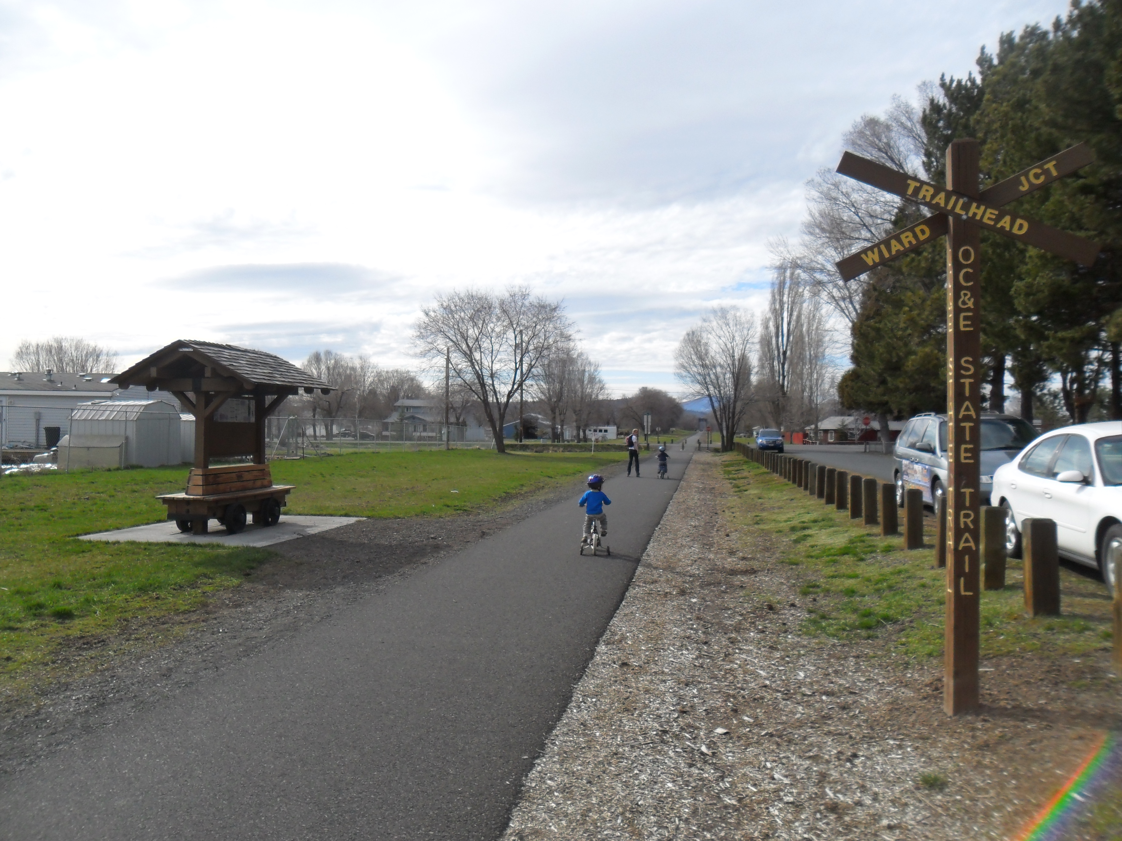 OC&E Woods Line State Trail through Klamath Falls at the junction with Wiard St and Ward Park. Railroad motifs along the old railbed seen on the left.